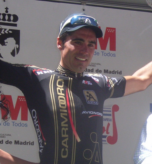 Francisco José Ventoso salutes on the podium after winning the stage 2 of the 2009 Vuelta a Madrid cycling race - Daniel Sánchez.